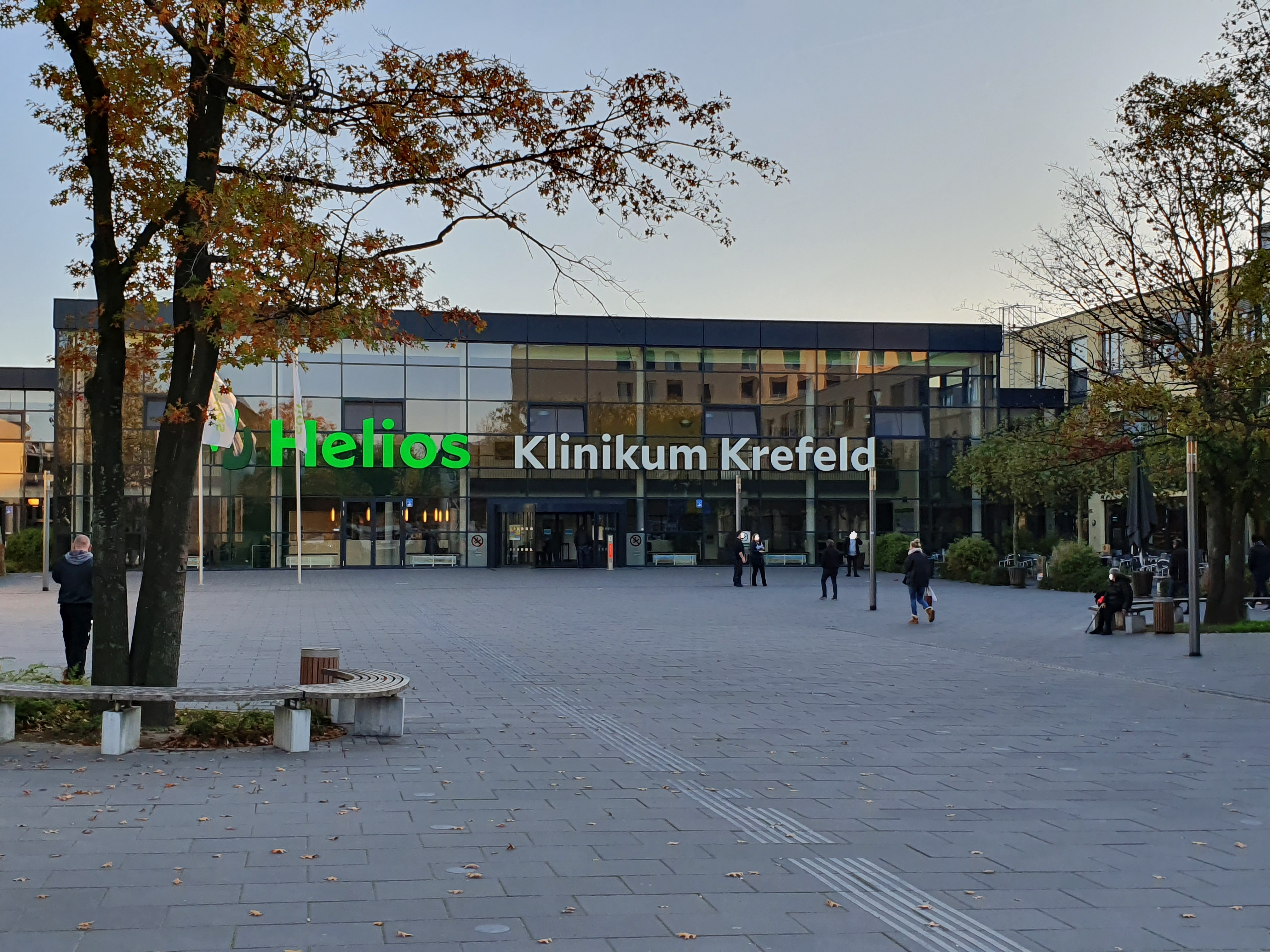 Helios Hospital Krefeld, Krefeld, Germany. Forecourt and main entrance to new building. Visible peoples' faces anonymized.